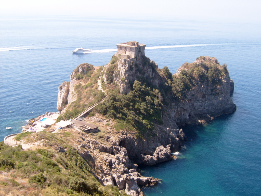 Capo di Conca with the ancient watchtower in Conca dei Marini, in the Amalfi Coast